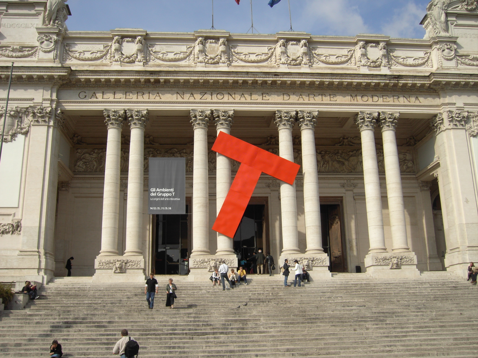 Picture of the National Gallery of Modern Art (Galleria Nazionale d'Arte Moderna in Rome (Via delle Belle Arti, 113), Italy taken on May 1st 2006 by me, User:Plrk.